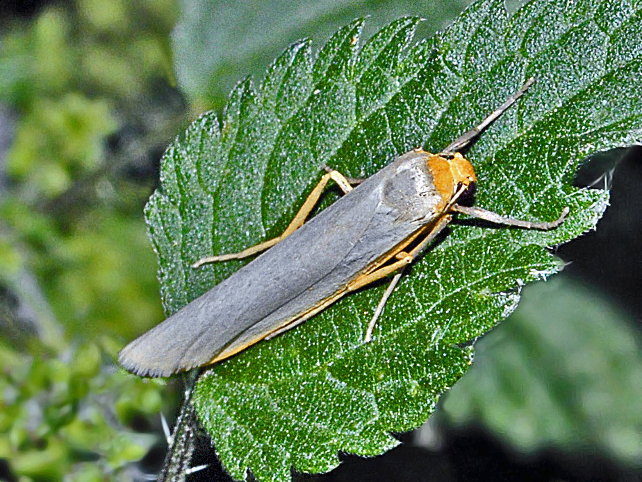 Eilema caniola (cf.). Alessandria, Italy